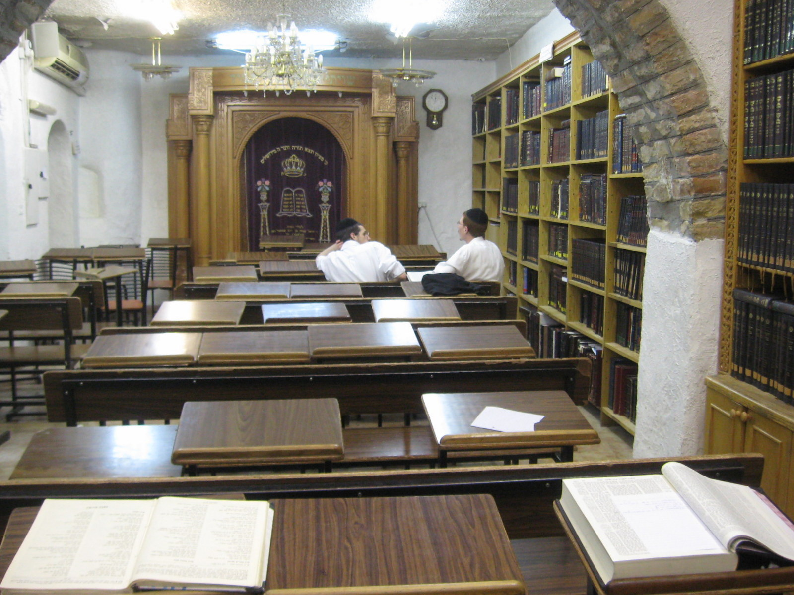 Old city of Jerusalem, חצר גליציה Galizia courtyard - Kolel Galicia - yeshivas aderes eliohu